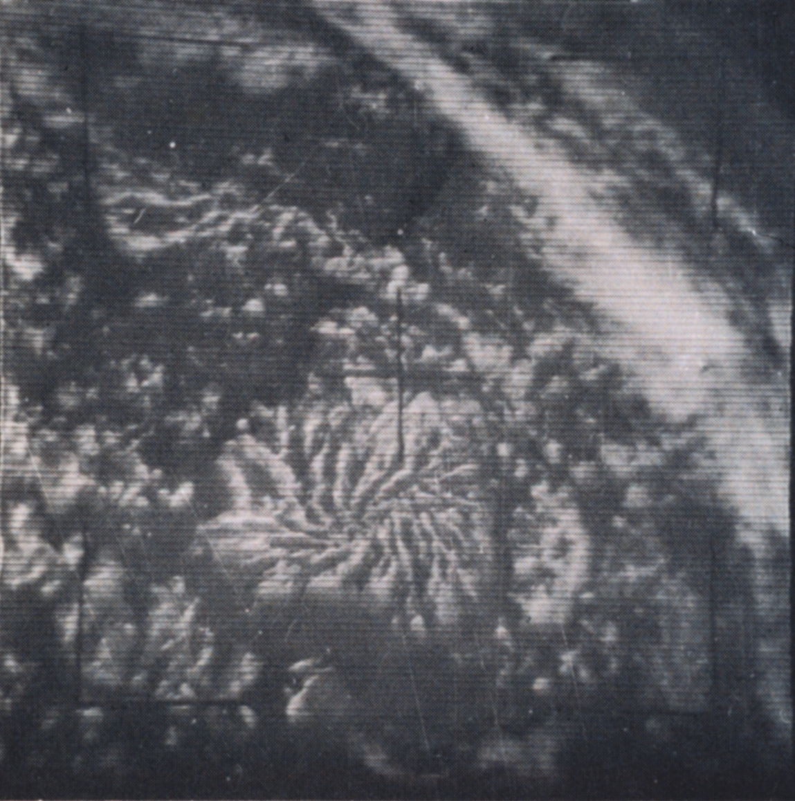 Actinoform, radial or semi-radial , cloud pattern over the tropical central Pacific near 17.5N, 155W. Cloud pattern is roughly 200 miles in diameter. Picture of the Month, "Monthly Weather Review," April 1965. TIROS V, Pass 838/837, Camera 1, Frame 20